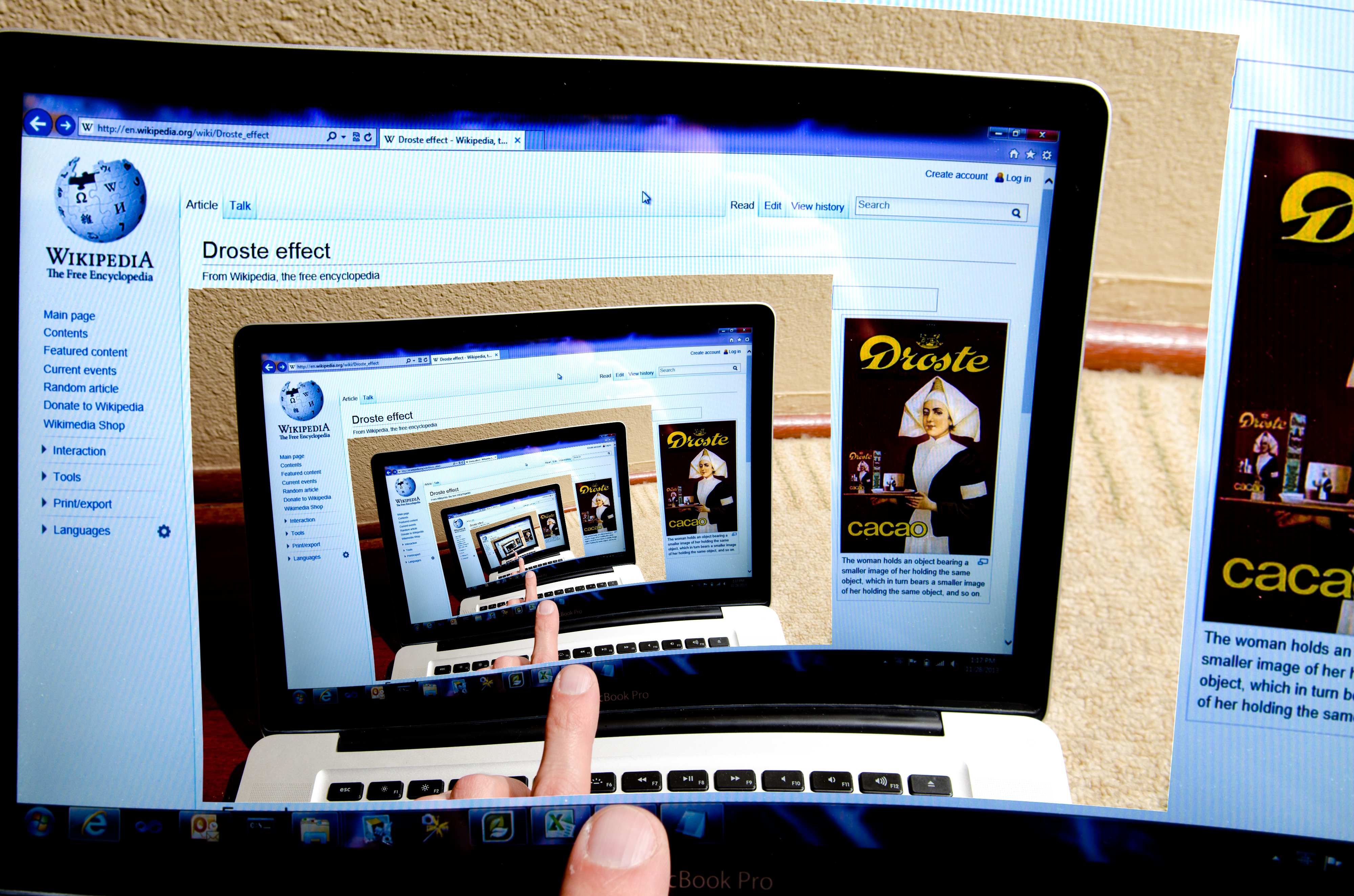 Example of the Droste Effect in a spiraling format. This image was created using Adobe's free Pixel Bender software and Tom Beddard's free Pixel Bender "Escher's Droste Effect" plugin.